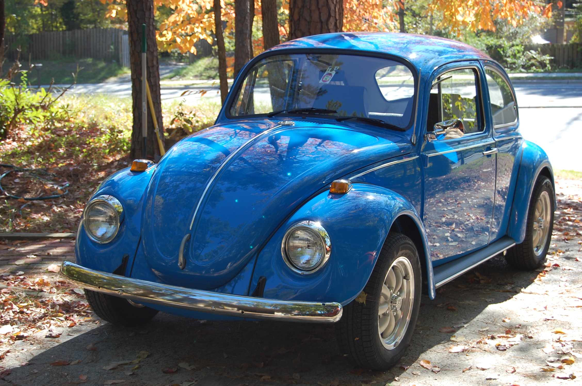 Blue Beetle 1968 restores (Auro)